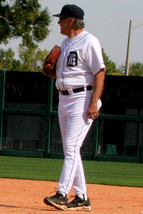 Dave Bergman (right) plays first base at the 2012 Detroit Tigers Fantasy Camp in Lakeland, Florida while a camper jogs down the first base line.